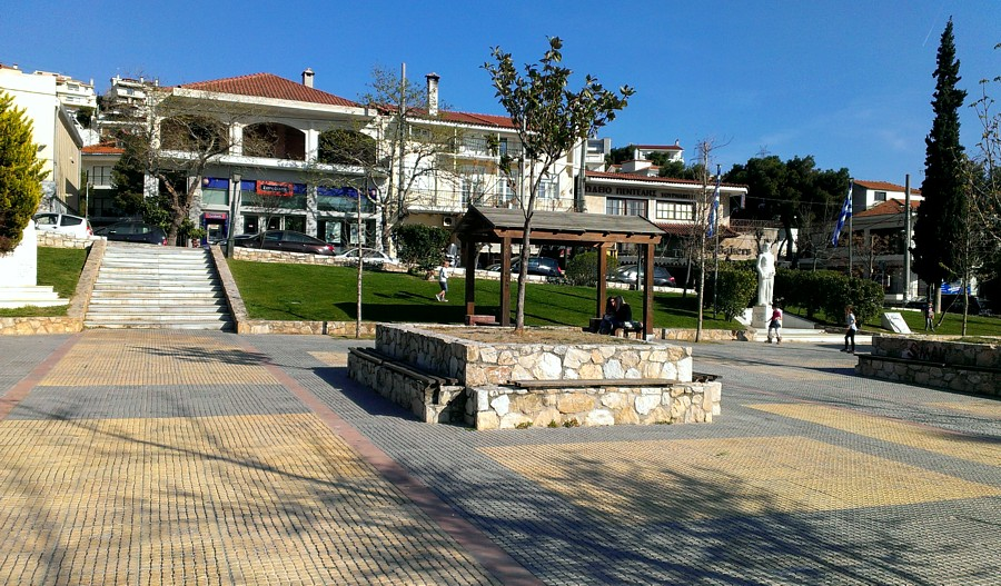 nea-penteli